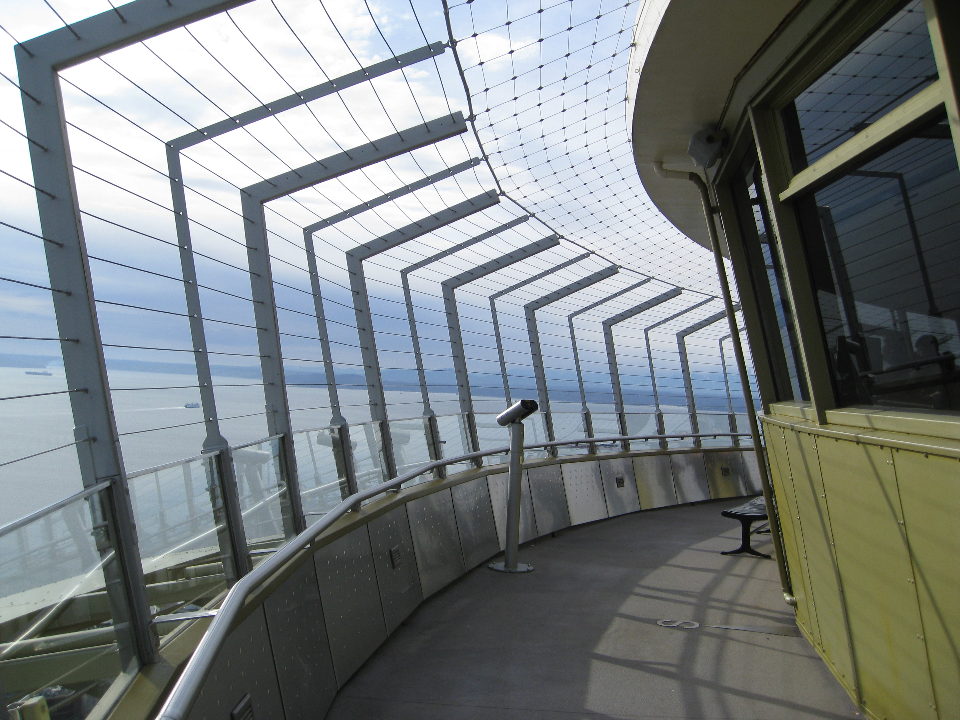 Space Needle, observation deck